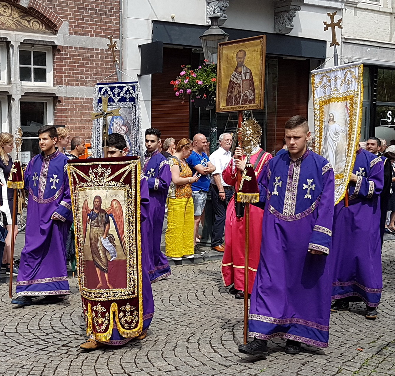 Participants in a historic religious procession during the 2018 Heiligdomsvaart (Relics Pilgrimage) in Maastricht, Netherlands. The history of this seven-yearly catholic pilgrimage goes back to the Middle Ages. The first 'modern' version took place in 1874. On both Sundays of the 10-day festival, a procession is held in which the main relics and other devotional objects are exhibited. This photo was taken in Stationsstraat during the (first) procession on Sunday 27 May 2018. This particular group represents two non-Catholic churches in Maastricht: the Russian Orthodox and the Armenian communities. The latter has special ties with Saint Servatius, Maastricht's Armenian-born patron saint.